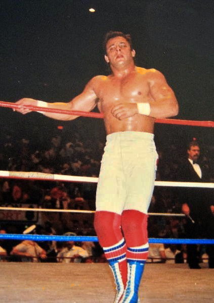 Professional wrestler "Dynamite Kid" Tom Billington as part of the British Bulldogs tag team